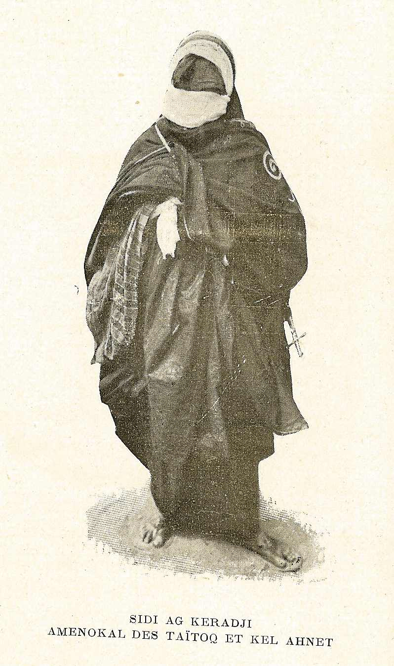 Sidi ag Keradj, the amenukal of Taitok in 1906